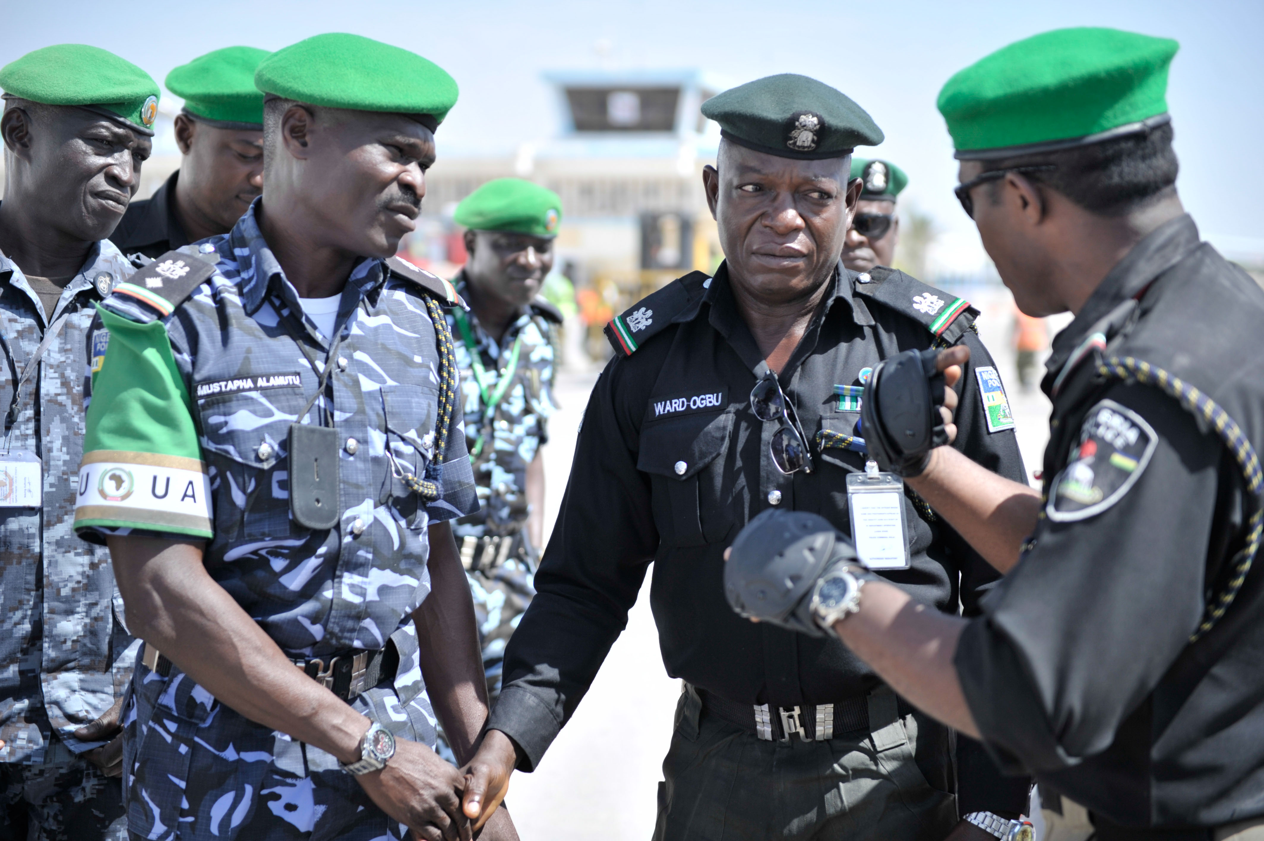 Contingent Commander, Ehide introduces Lagos State Police Command, Ward Ogbu to Amisom Mogadishu Regional Commander of the Nigeria Formed Police Unit, Mustapha Alamutu, on 6th January 2014 at Aden Adde International Airport in Mogadishu. Ward Ogbu had arrived with seventy officers to replace seventy officers who were leaving Mogadishu after completing their rotation. The AMISOM Police which comprises Ugandan, Nigerian, Ghanaian, Sierra Leoneian police,has the mandate to provide mentoring and advisory support to SPF on basic police duties, such as human rights observation, crime prevention strategies, community policing, search procedures and investigations. AU UN IST PHOTO / David Mutua